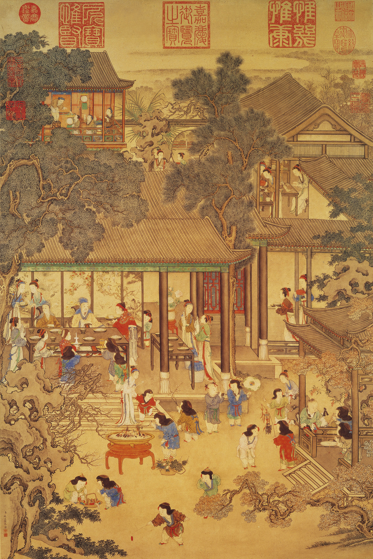 中文（香港）: 清 姚文瀚 歲朝歡慶圖 軸 紙本設色 縱82.4公分 橫55公分 此圖描繪過年闔家歡慶團圓的場面。男女主人端坐廳堂，孩童們則敲鑼擊鼓、吹笙拍板，耍玩傀儡、點燃炮竹，嬉戲於庭院中。家僕或持酒壺侍立，或端送糕果，穿梭於前廳迴廊裡。後院婦女忙碌準備年夜飯，遠處閣樓上男僕合力懸掛大燈籠。庭院火盆燒著松枝、芝麻秸，室內佈置著「四季花卉」大立屏，朱几瓶插牡丹，烘托出滿堂富貴吉祥的年味。 姚文瀚（1713－？）字濯亭，順天（今北京）人。胡敬《國朝院畫錄》：「姚文瀚，工人物，兼擅釋道畫像。」乾隆八年（1743）進入如意館行走，在宮中服務時間長達四十多年，然其離開宮廷及去世時間卻不可考。 Joyous Celebration at the New Year Yao Wen-han (1713-?), Ch'ing dynasty Hanging scroll, ink and colors on paper, 82.4 x 55 cm This painting depicts a festive family reunion scene during the New Year's holidays. The host and hostess are shown seated solemnly in the main hall as children play gongs, blowpipes, and clappers. They also perform with puppets, set off firecrackers, and mill about the raucous garden setting. Family servants and attendants hold wine jugs or send snacks in the hall and corridor. Women in the building behind busily prepare the New Year's dinner as male servants in the distance work together to hang large lanterns. Pine branches and sesame stalks burn fragrantly in the brazier, while the interior is decorated with a large standing screen of the flowers from the four seasons. Peonies on the red lacquered table give the residence an added sense of auspicious prosperity for the New Year. Yao Wen-han (style name Cho-t'ing) was a native of Shun-t'ien (modern Peking). Hu Ching's Collected Notes on Painting in Our Dynasty records that "Yao Wen-han was good at figures and also specialized at Buddhist and Taoist subjects." He entered the Ju-i Hall at court in 1743 and served for more than forty years, but little is known about when he left the court or died.